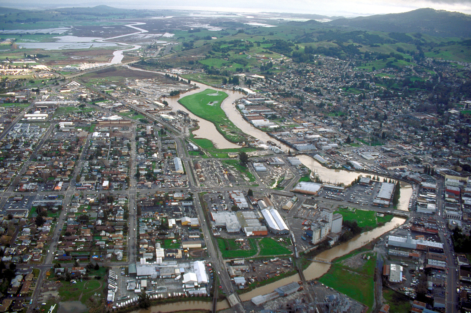 Aerial view of Petaluma, California, USA. The Petaluma River flows through the center of the city and empties into San Pablo Bay about 12 miles (19 km) in the distance. This photograph shows only about one third of the city. View is to the southeast. Coordinates: 38°14′6.89″N 122°38′2.04″W / 38.2352472°N 122.6339°W